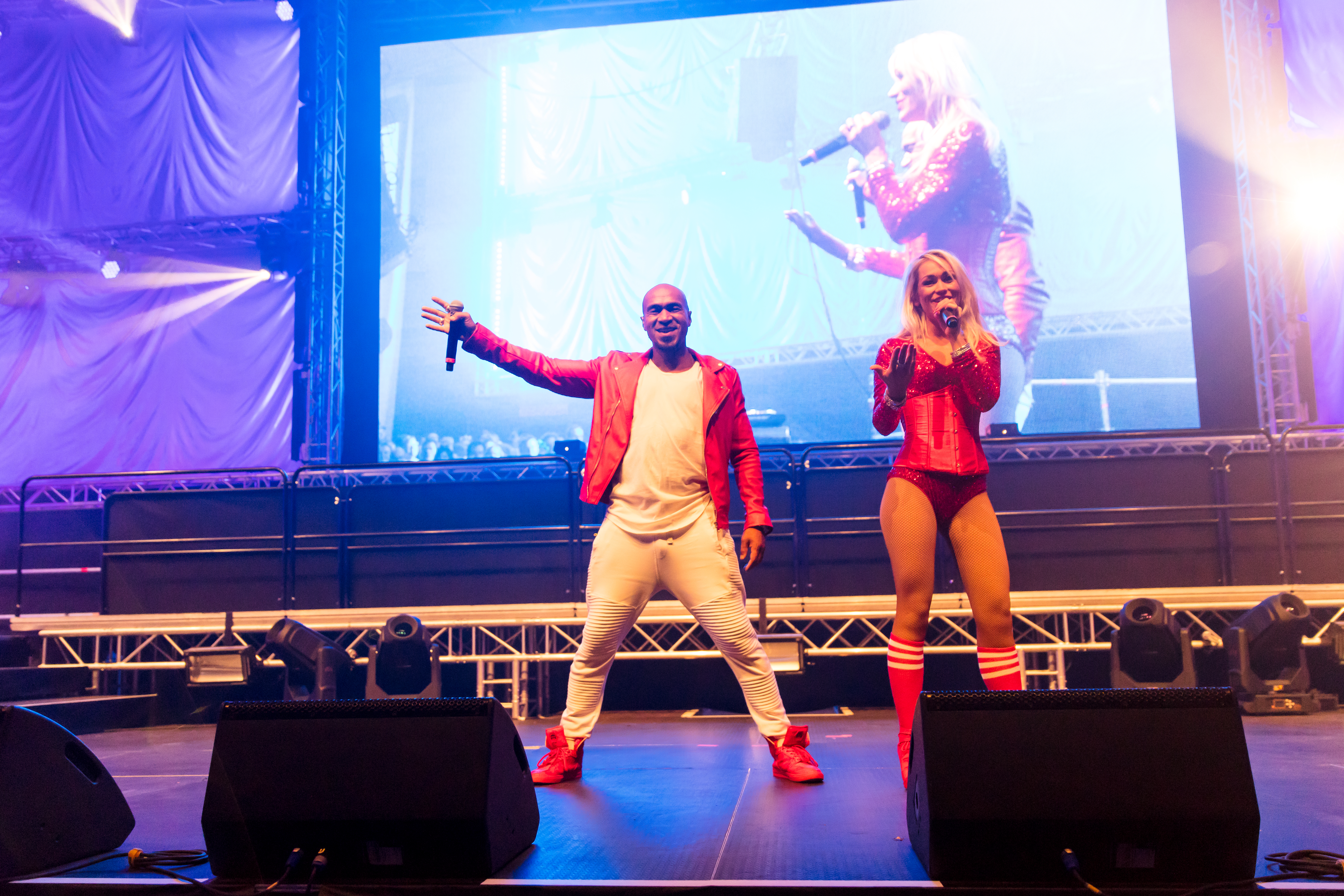 Twenty 4 Seven during Sunshine Live - 90er Live on Stage at Maimarkt Halle, Mannheim, Baden Württemberg, Germany on 2016-11-26, Photo: Sven Mandel DJ Falk, E-Rotic, Twenty 4 Seven, Rednex, Vengaboys, Masterbox feat. Beatrix Delgado, 2 Brother on the 4th Floor, 2 Unlimited, Interactive, Charly Lownoise, Marusha